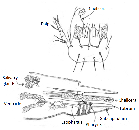 Details of the gnathosoma.